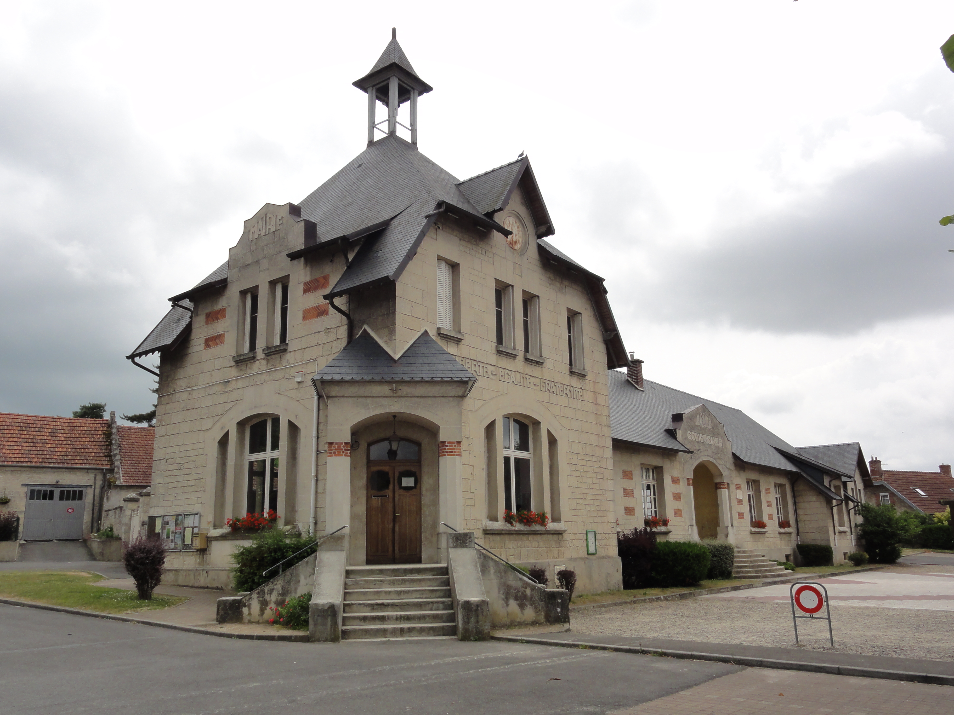 Chassemy (Aisne) mairie-école